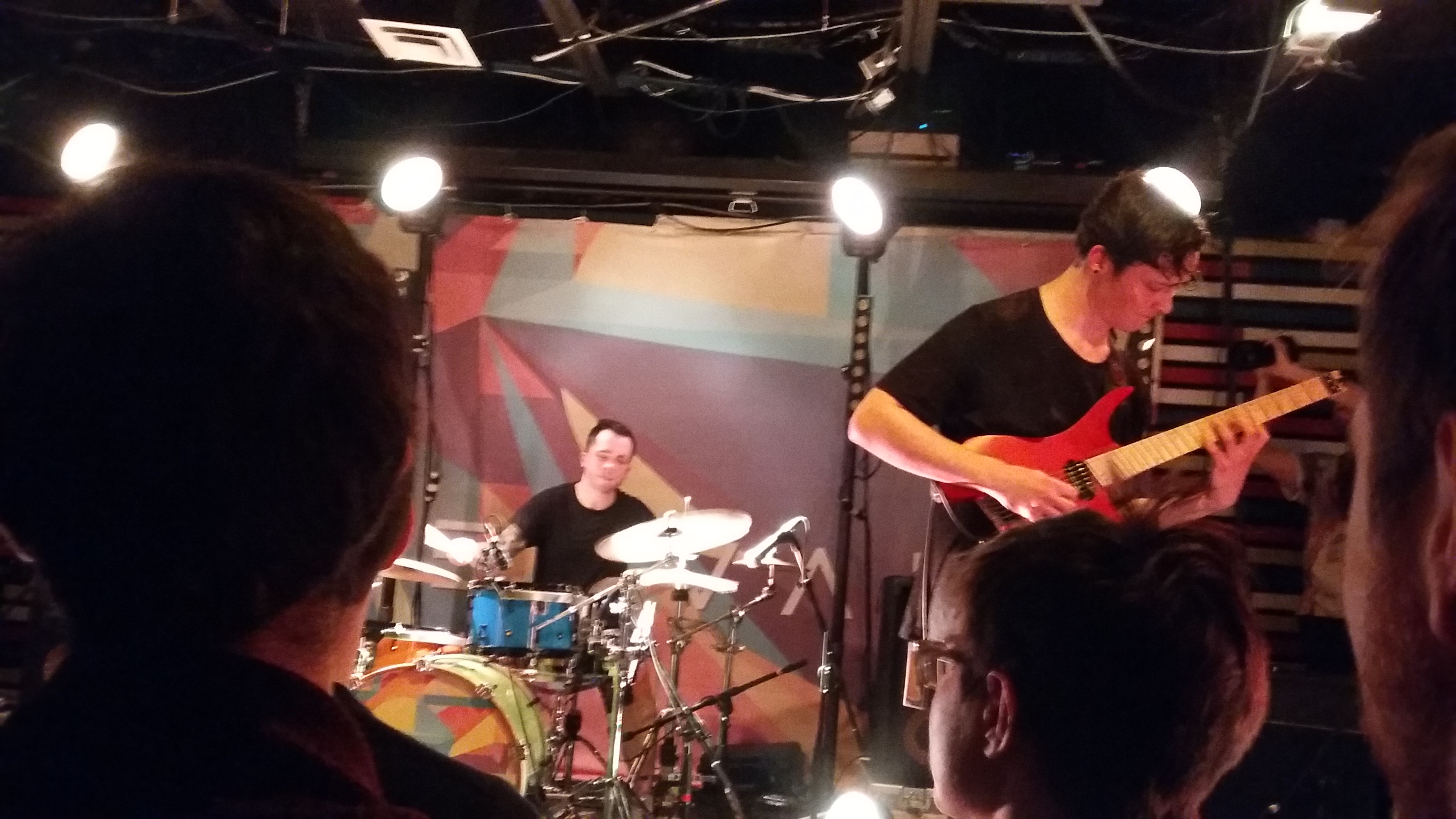 Intervals photographed in Montreal, Quebec, Canada inside Ritz PDB.